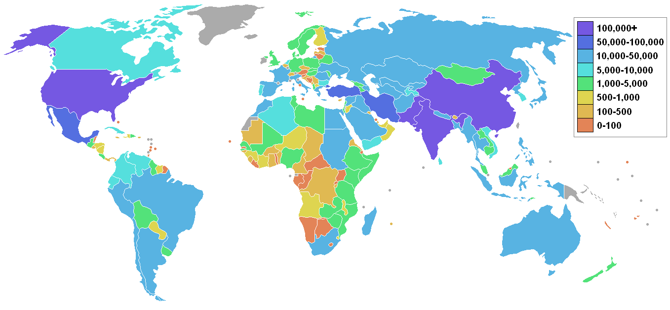 Irrigated land by country in square km, as listed on CIA factbook, accessed June 2006. Made from blank world map